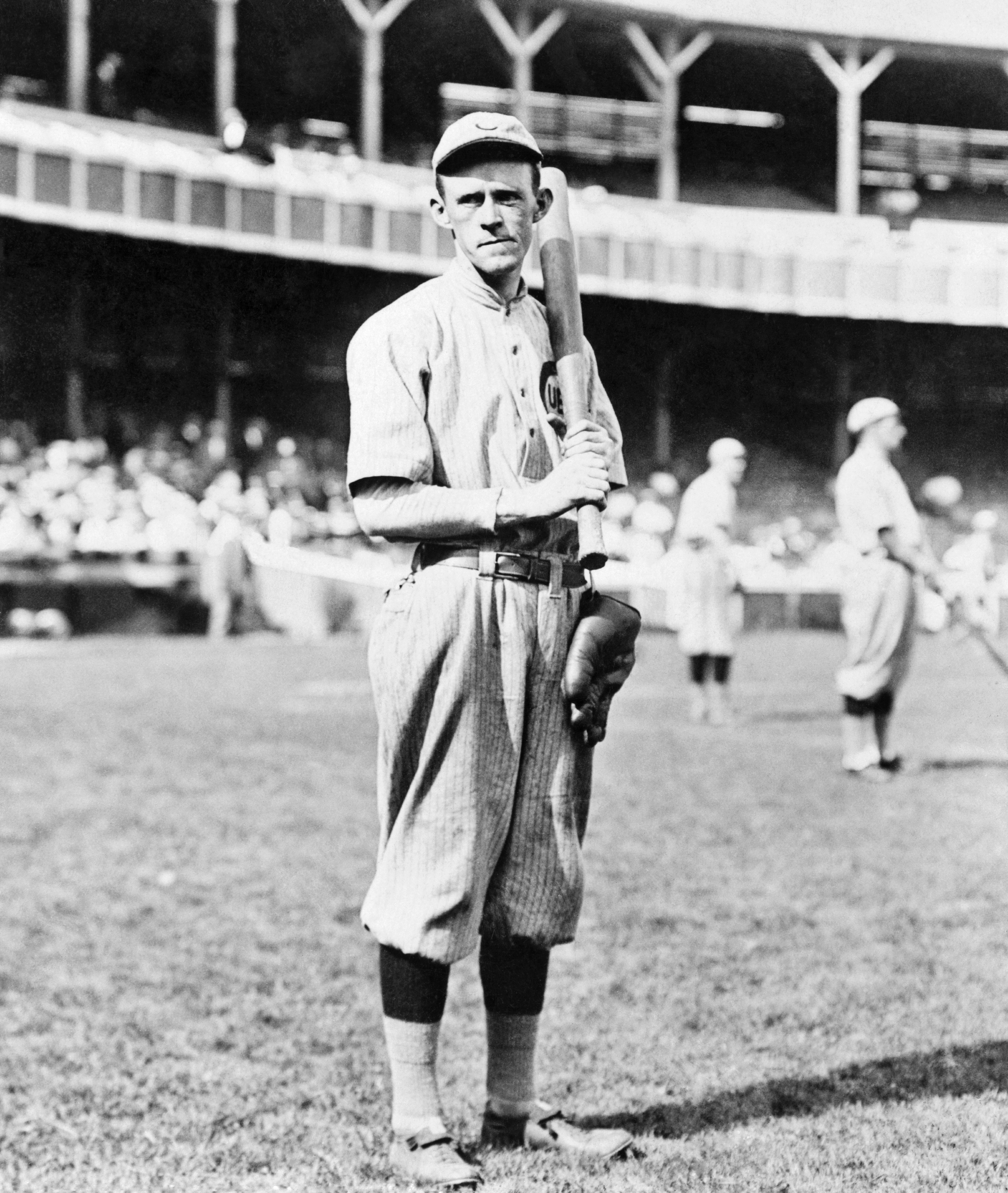 Johnny Evers (1881 – 1947), Major League Baseball player and manager